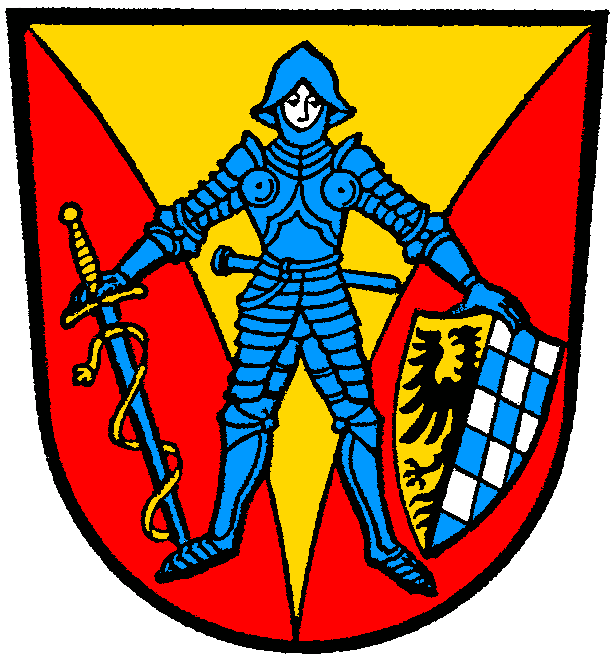 Coat of arms of the Town Zwiesel